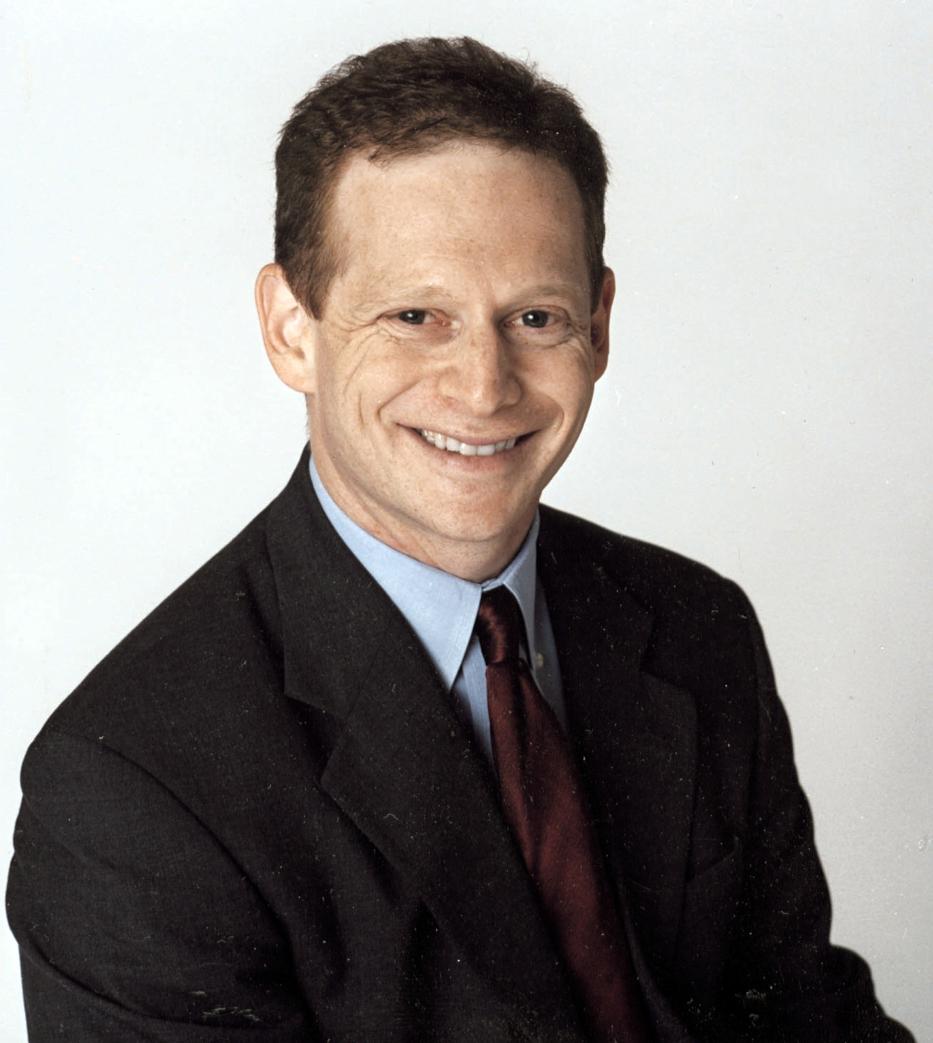 Please consider this email an agreement for use of the attached photo of Commissioner Denn in accordance with the GNU Free Documentation License. Greg Patterson Advisor to Insurance Commissioner Matthew Denn